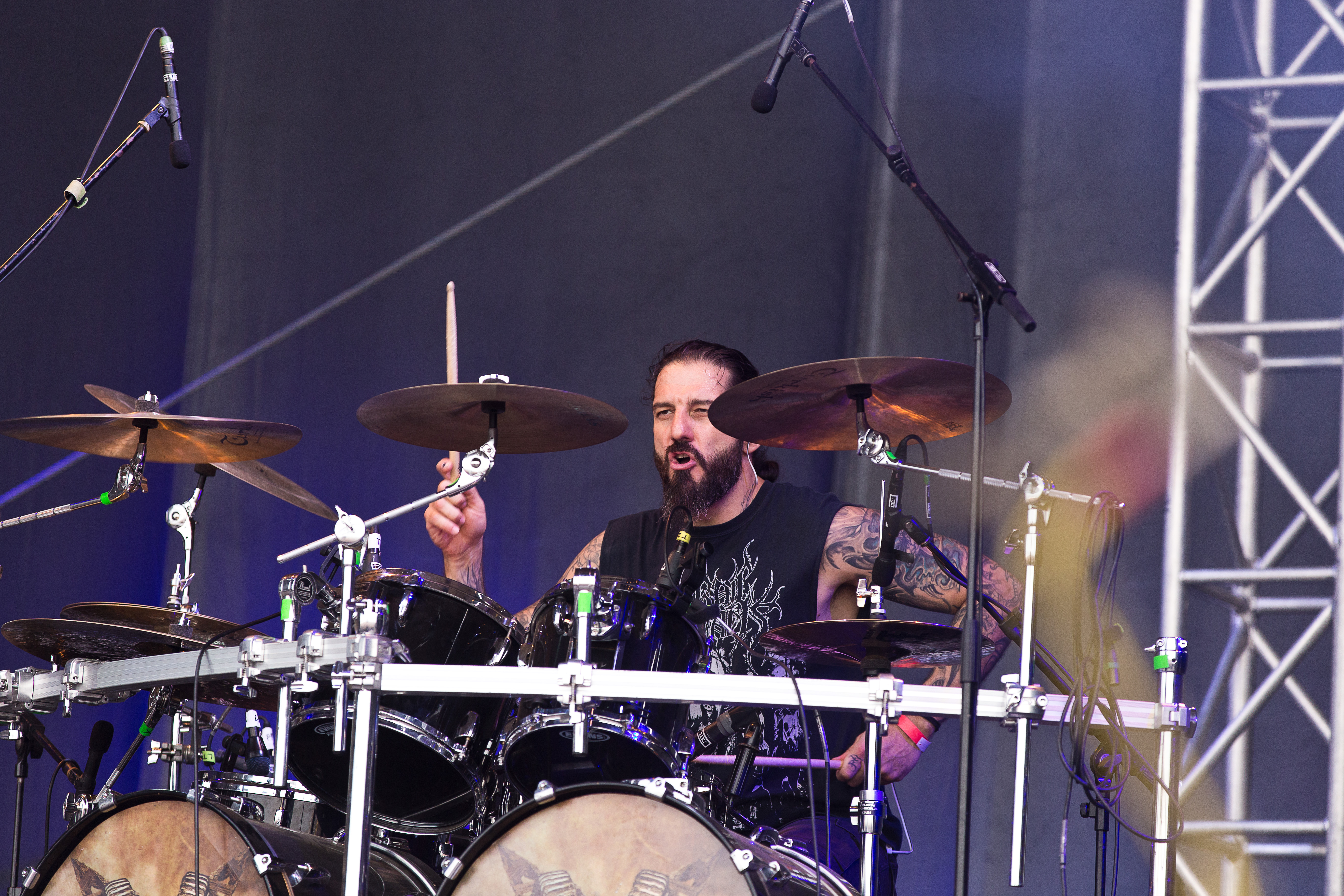 The Greek metal band Rotting Christ at the Party.San Open Air 2015 in Obermehler-Schlotheim/Germany.